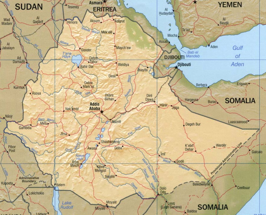 Shaded relief map of Ethiopia, 1999, produced by the Central Inteligenc Agency. Resized version.